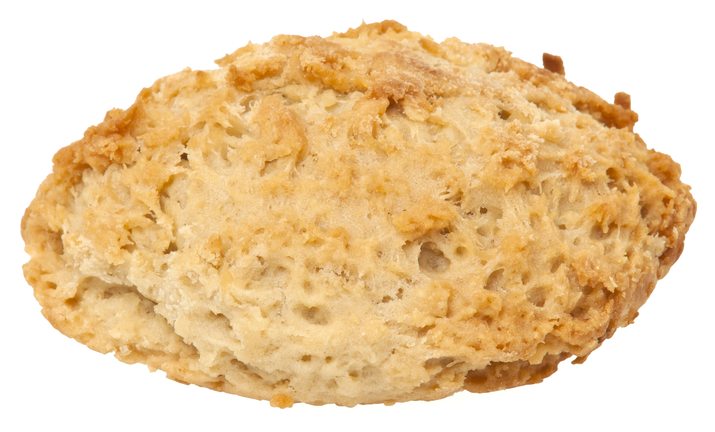 A Golden Krust-brand rock cake. A Caribbean food that is a dense sweet bread.